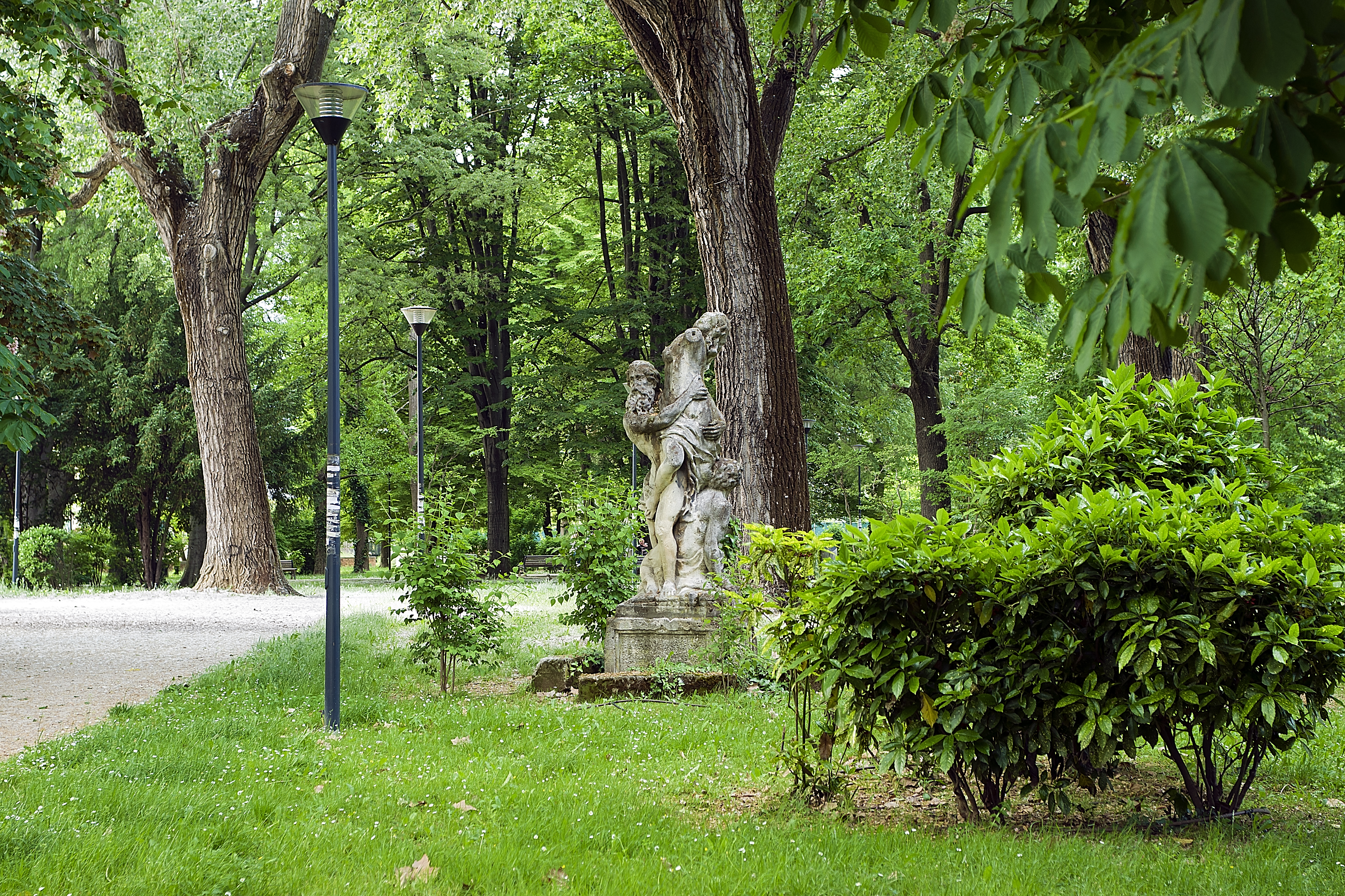 Gardens of the Villa Querini, Mestre.